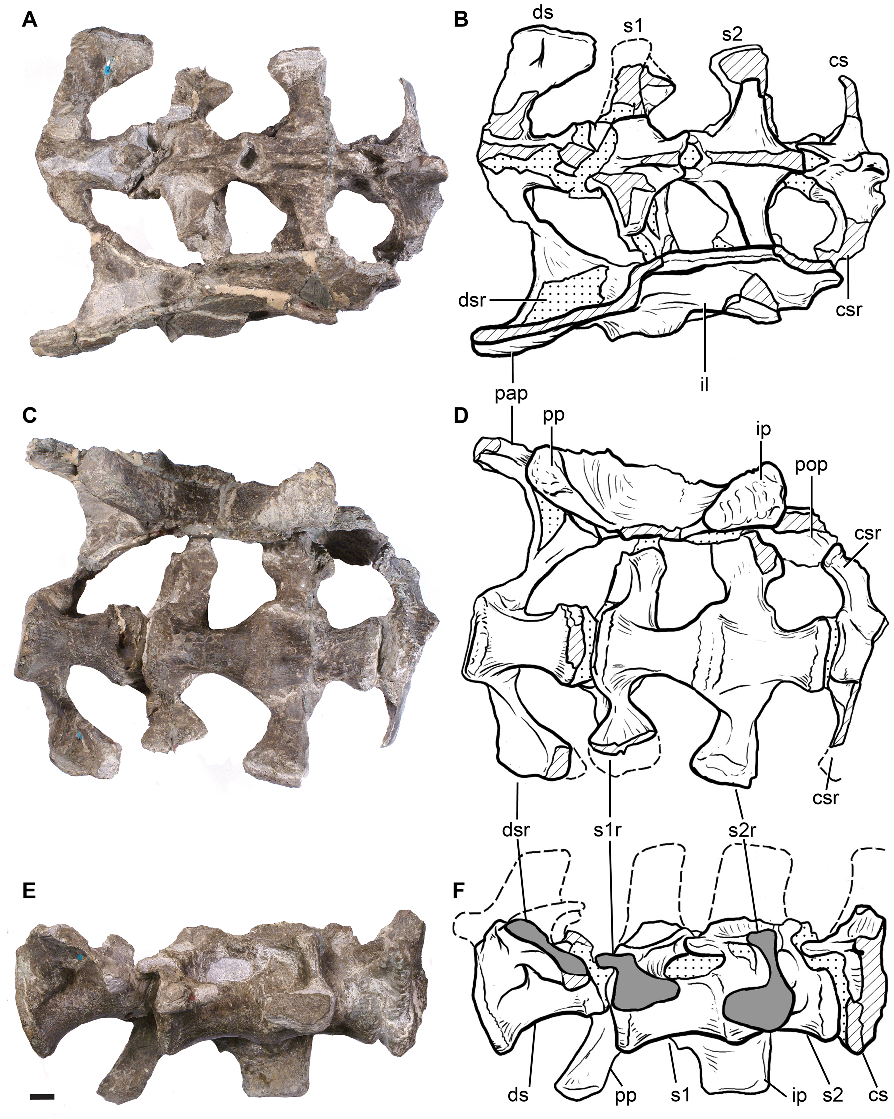 Sacral vertebrae of Leonerasaurus taquetrensis (MPEF-PV 1663). A–B, dorsal view. C–D, ventral view. E–F, lateral view (inverted right side). Hatched pattern represents broken surfaces and dotted pattern represents sediment. Gray areas represent the iliac attachment surface of the sacral ribs. Scale bar represents 10 mm. Abbreviations: cs, caudosacral; csr, caudosacral rib; ds, dorsosacral; dsr, dorsosacral rib; il, ilium; ip, ischial peduncle; s1, first primordial sacral; s1r, first primordial sacral rib; s2r, second primordial sacral rib; s2r, second primordial sacral rib; pap, preacetabular process; pop, postacetabular process; pp, pubic peduncle.